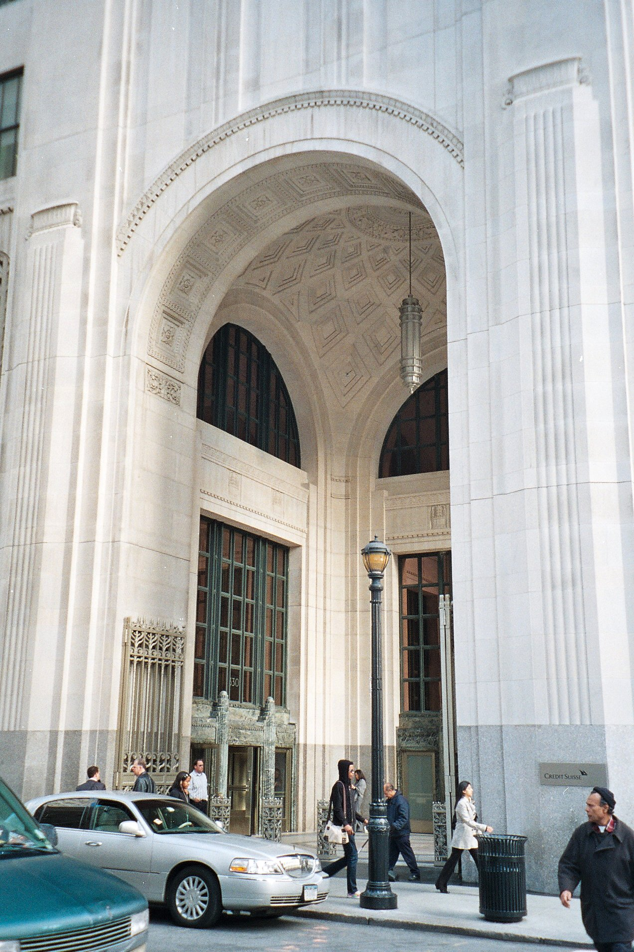 Spectacular archways serve as entrances to what was supposed to be the world's tallest building.